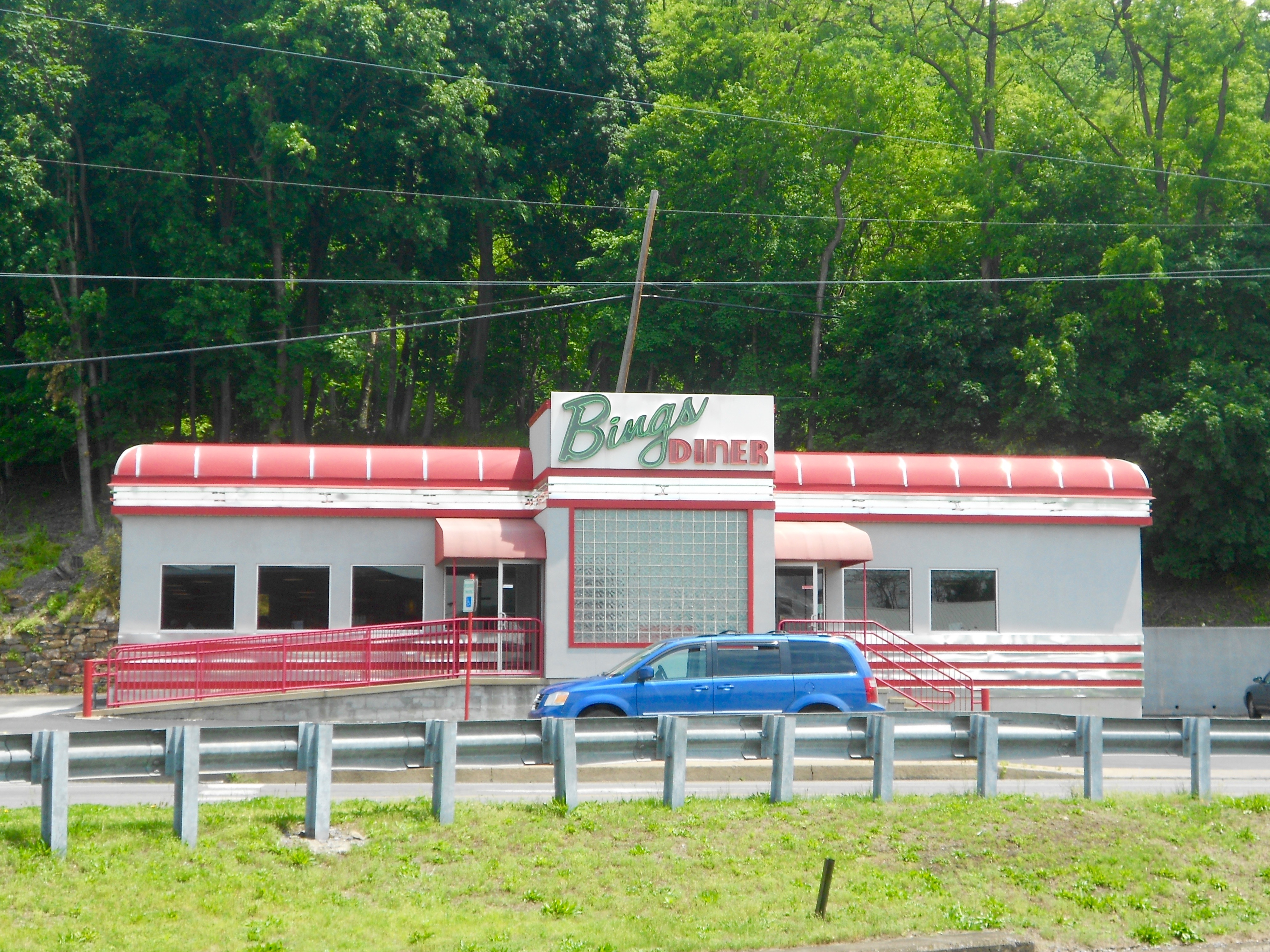 Bing's Diner in Burnham, Pennsylvania near the Standard Steel plant